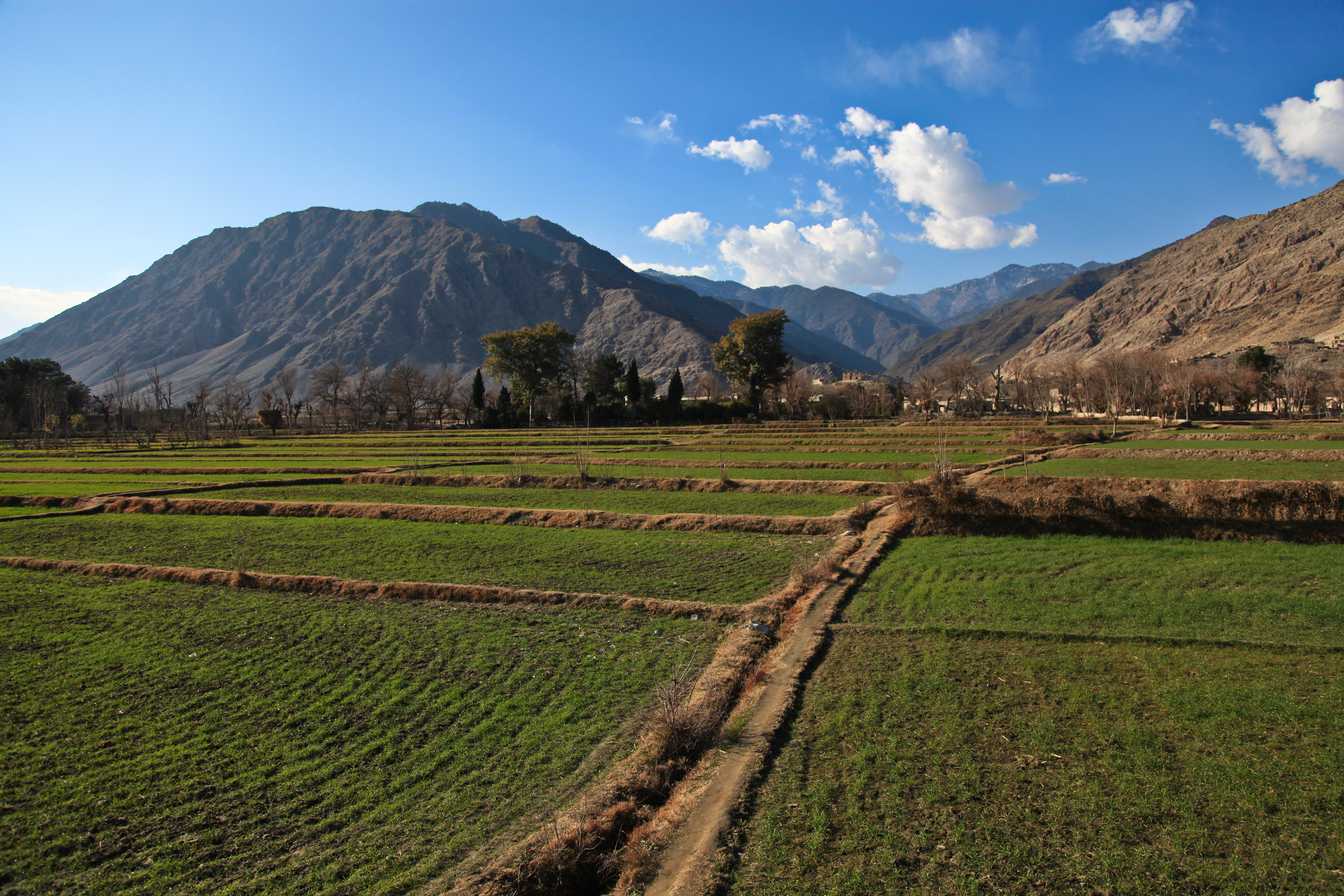 The Badel valley as can be seen from an Afghan Local Police station tower, Kunar province, Afghanistan, Jan. 18, 2012. (Photo ID: 514011)